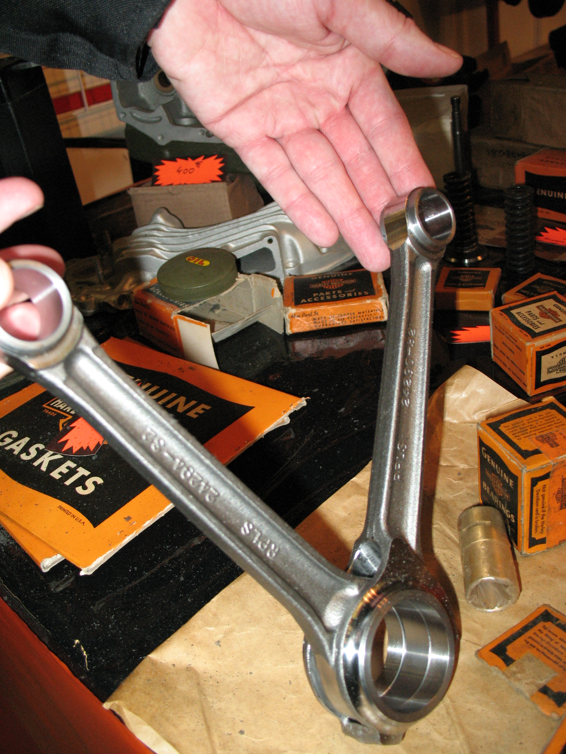 conrod of Harley-Davidson engine